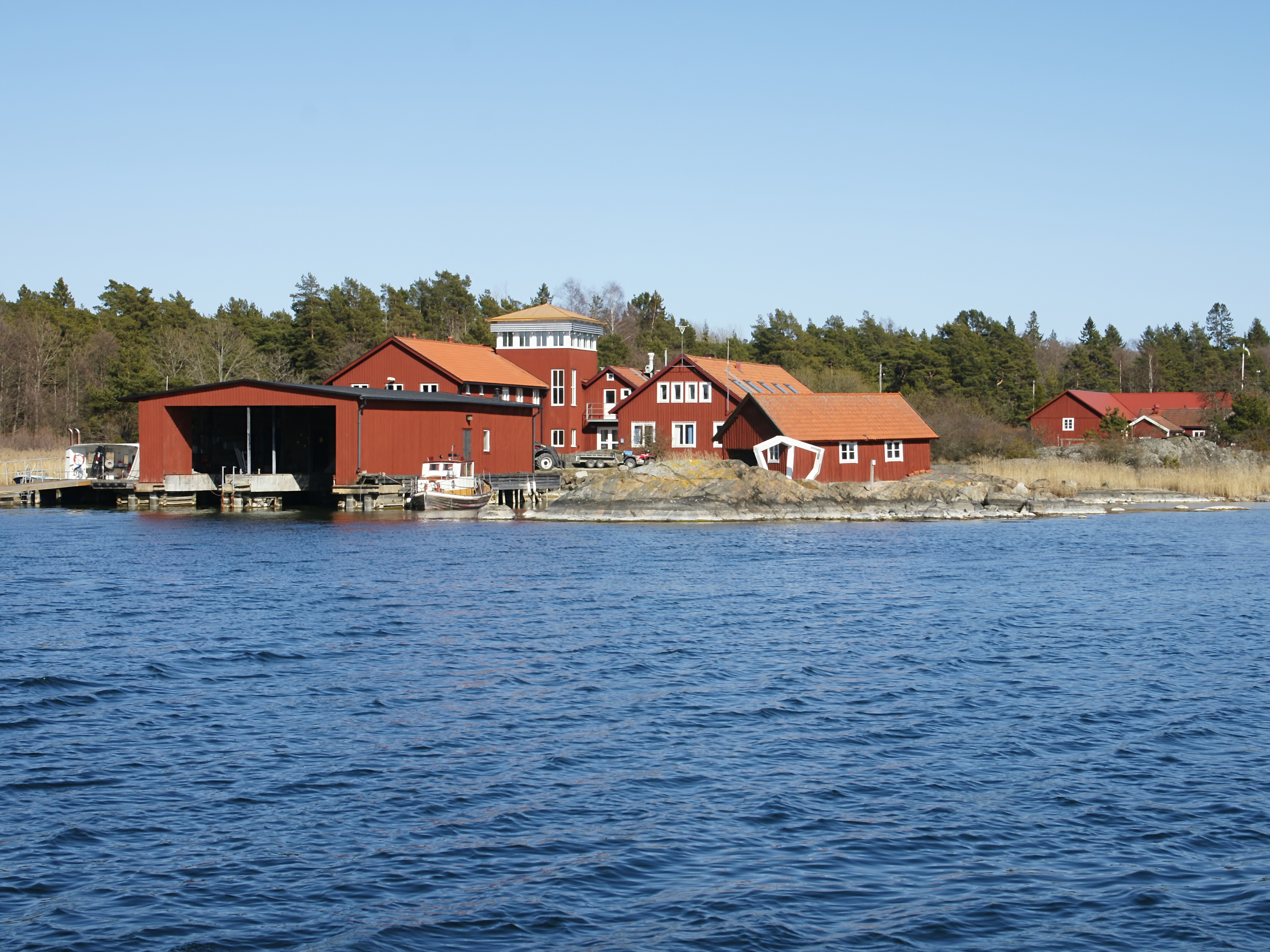 Field station Askö Laboratory, situated on the island of Askö, about 90 km south of Stockholm and 50 km north of Nyköping, Sweden